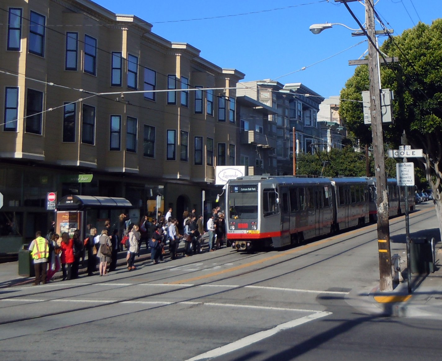 Cole Valley commuters catch an inbound N streetcar. The N is usually full by this point after having crossed the Sunset district from Ocean Beach. San Francisco 2011